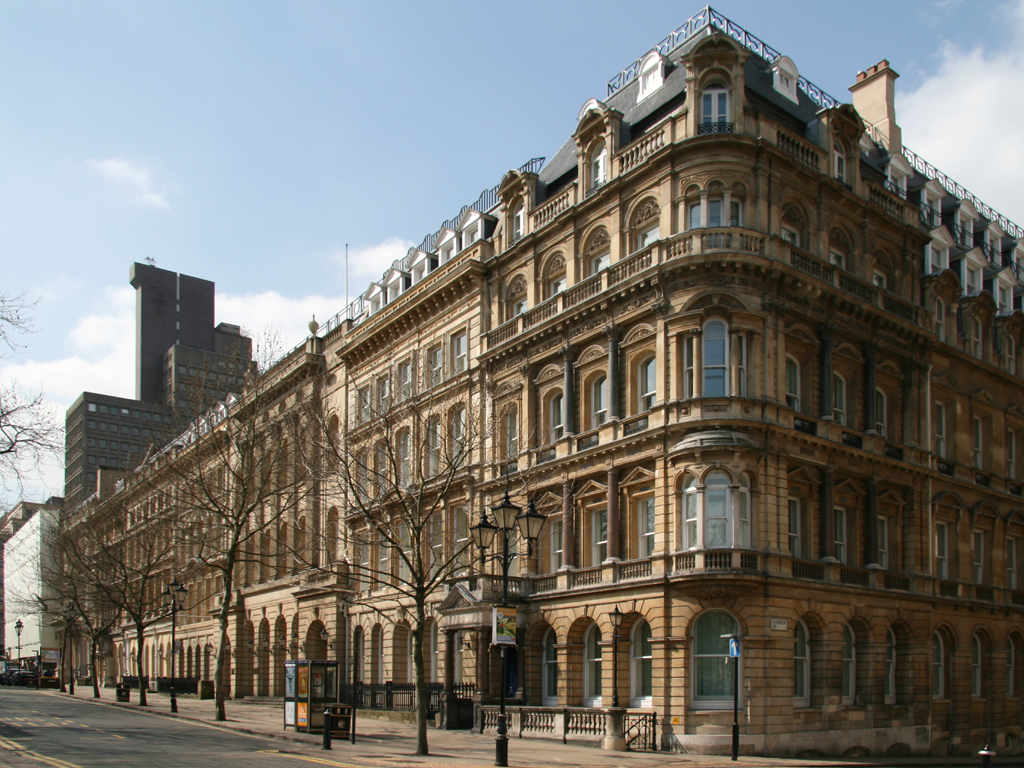 55 Colmore Row, Birmingham, England, on the corner of Church Street.